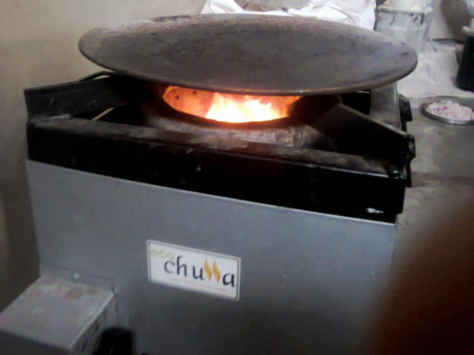 smokeless chullas in vigyan ashram